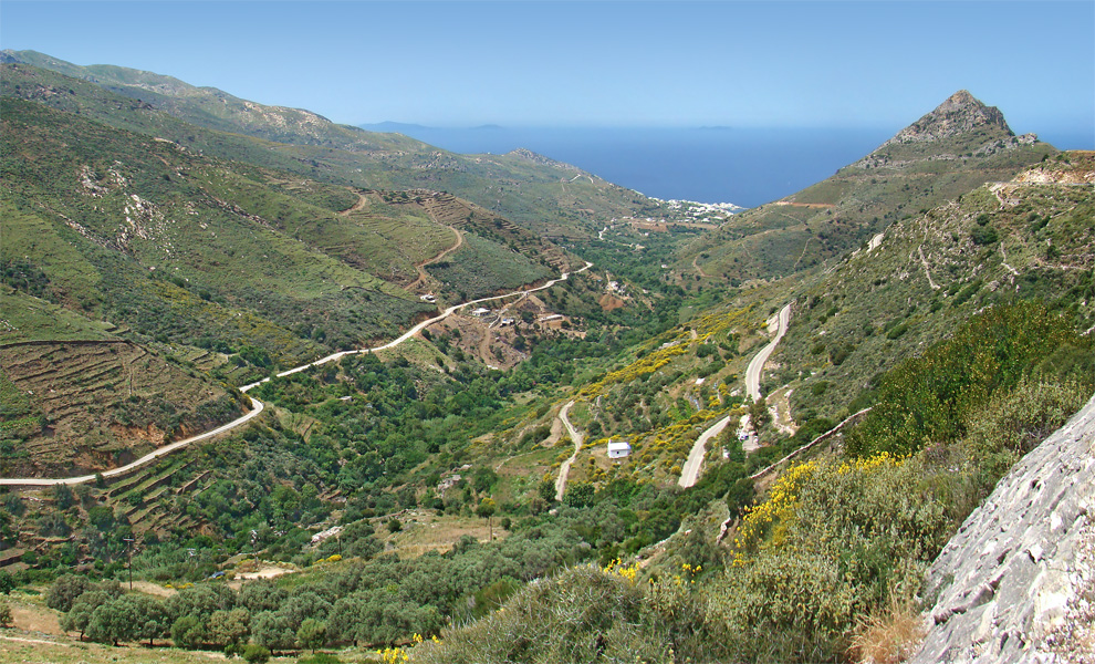 Around Mesi, Naxos, Greece. The winding road leads to the town of Apollonas down the coast.